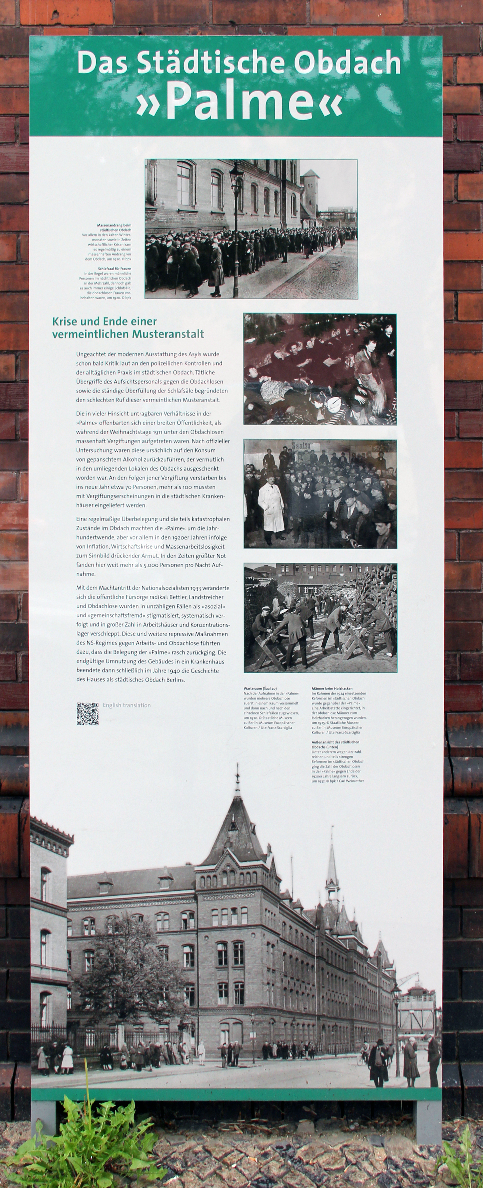 Memorial plaque, Das städtische Obdach Palme, Fröbelstraße 15, Berlin-Prenzlauer Berg, Deutschland